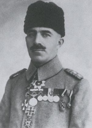 Ottoman colonel Hakkı Behiç Bey (Erkin)